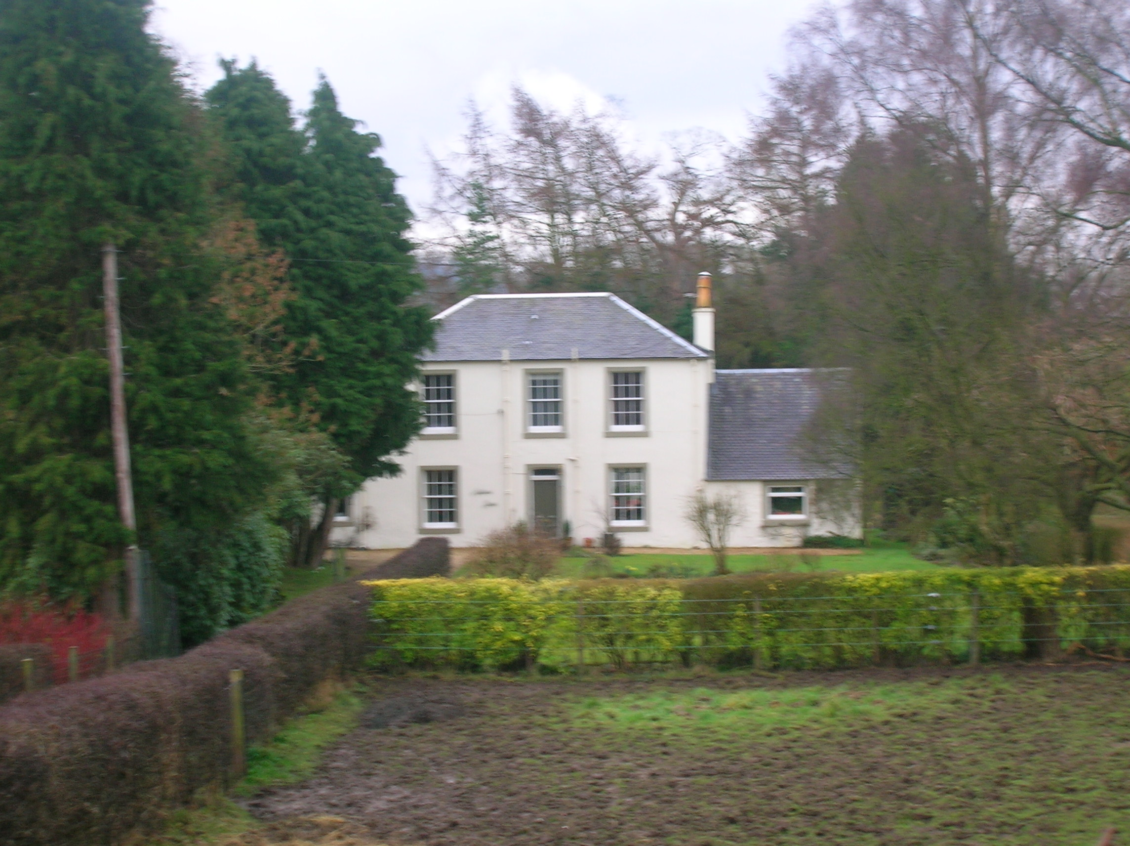 Lord John Boyd Orr, awarded the Nobel Peace Prize was born here - Holland House - on the Fenwick Road in Kilmaurs. He may have been related to the Orr's of Townhead of Lambroughton and Cakertonhole.